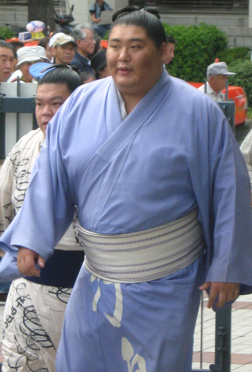 Picture taken at Sep 2008 tournament